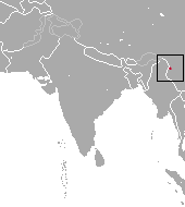 Black Pika (Ochotona nigritia) range